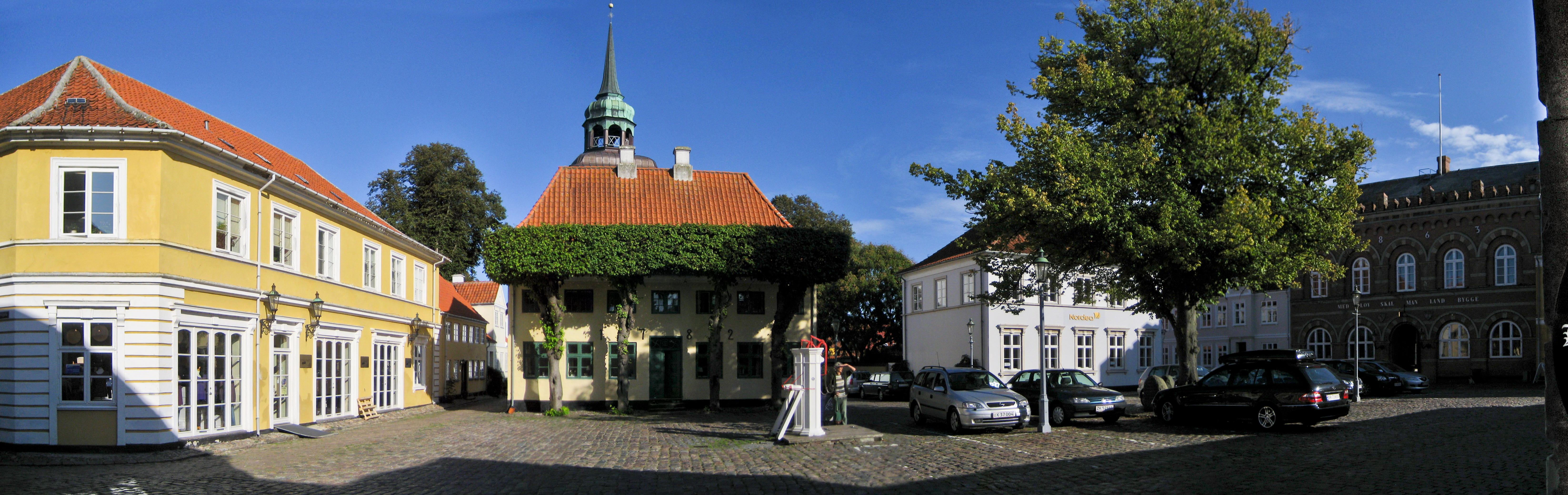 Ærøskøbing, Town Hall Square